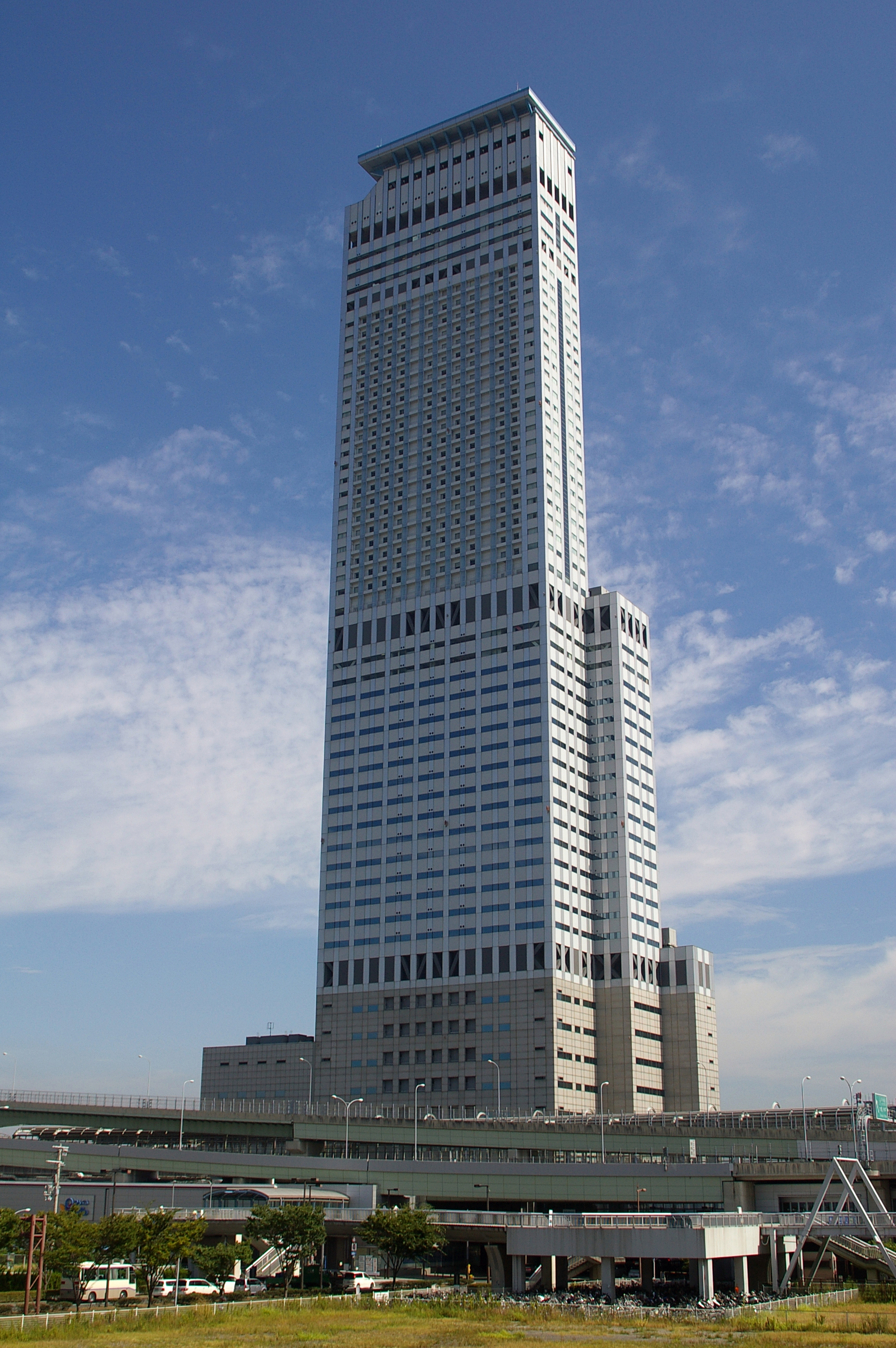 Photograph of Rinku Gate Tower Building in Izumisano, Osaka Prefecture, Japan.